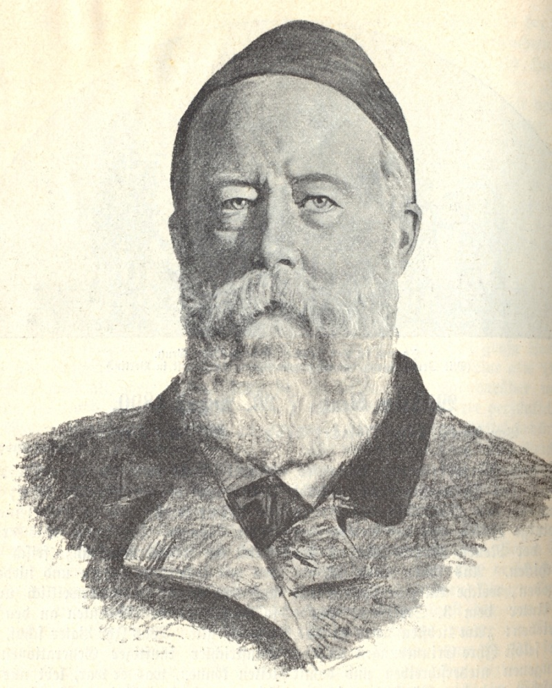 German painter Wilhelm Gentz (1822-1890). Drawing by his son Ismael Gentz (1862-1914).